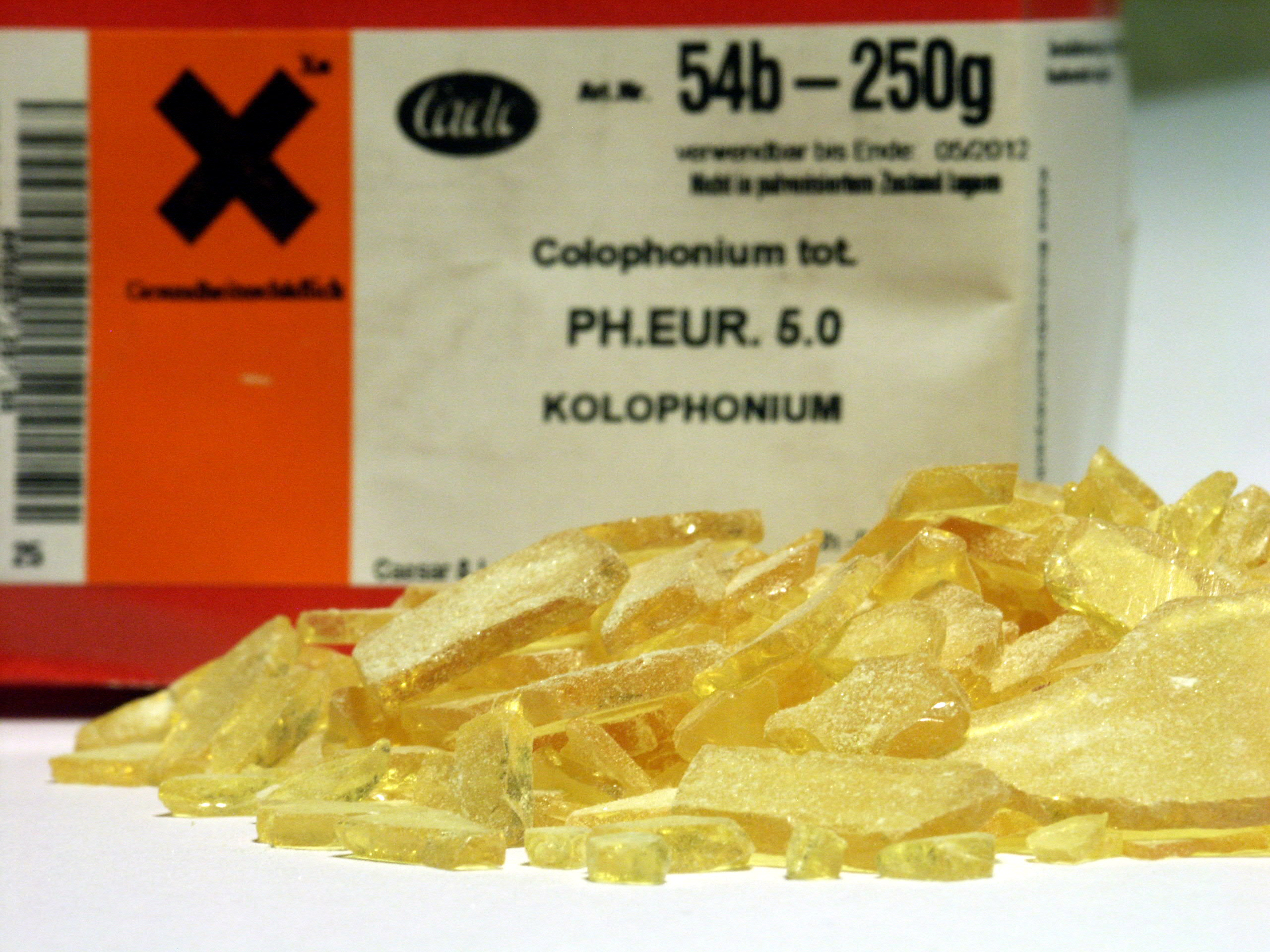 Rosin, solid resin, component of soldering flux